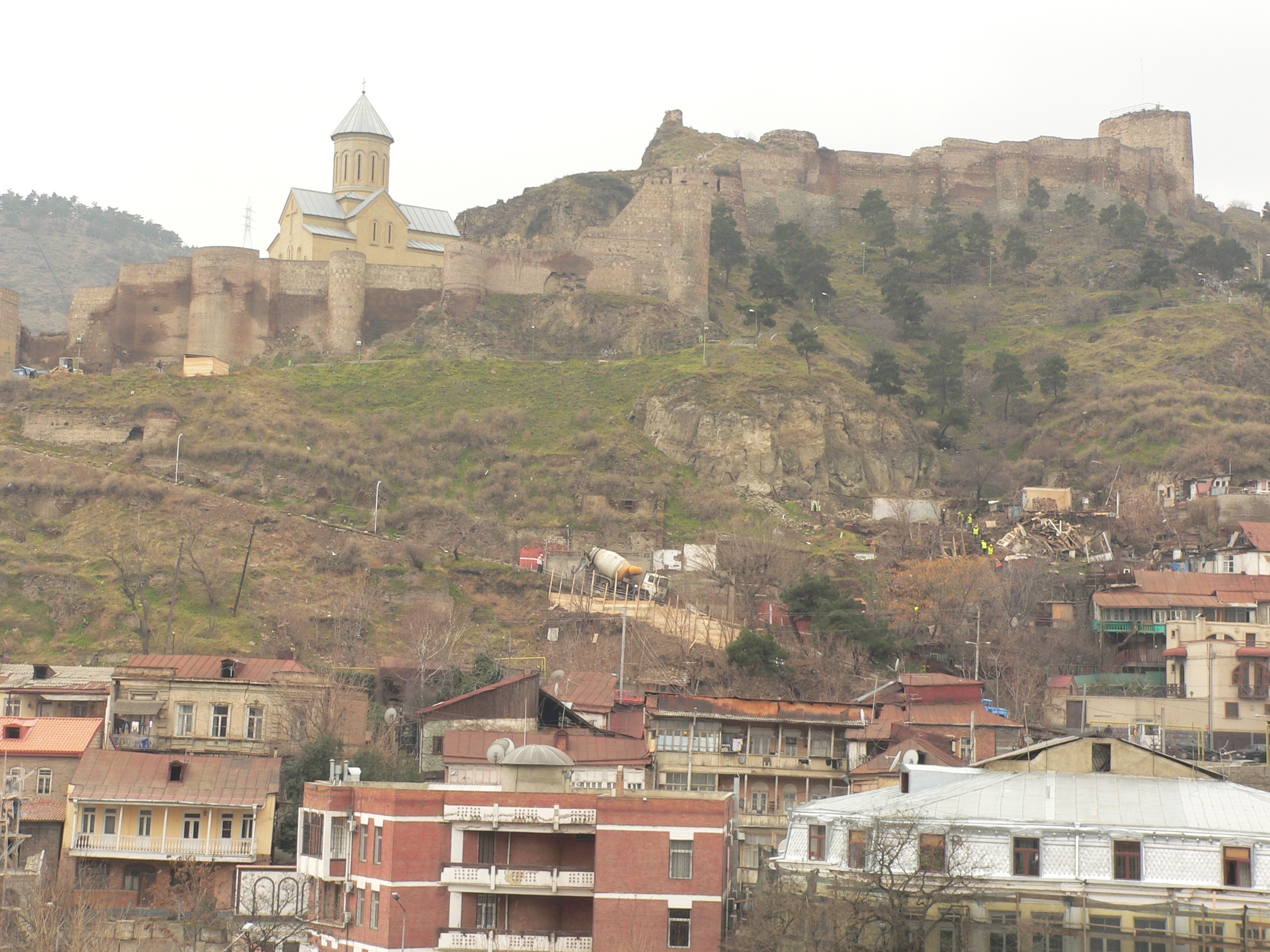 Fortress Narikala, Tbilisi, Georgia.